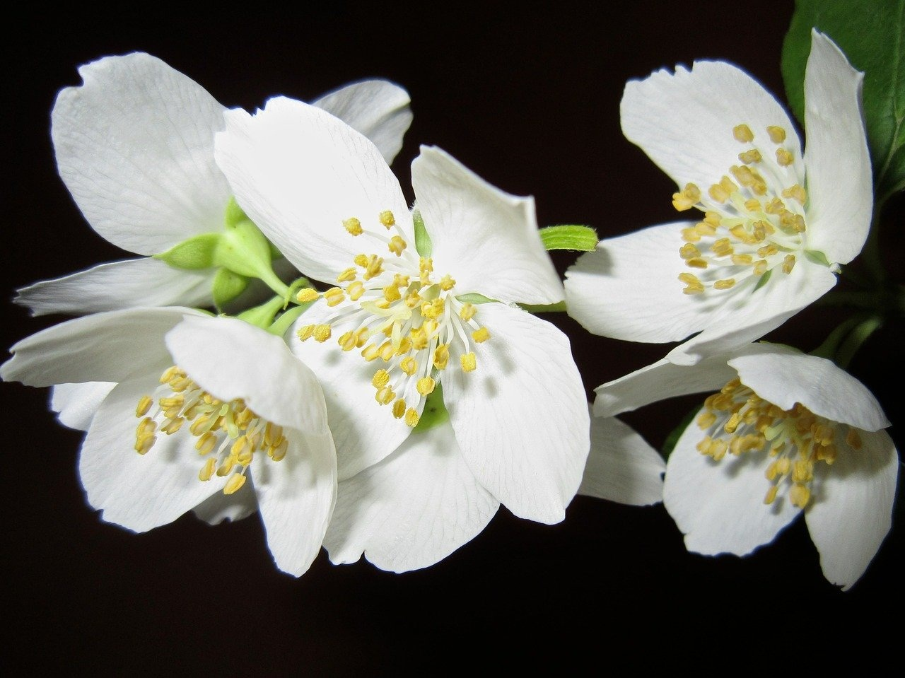 ياسمين متفتح